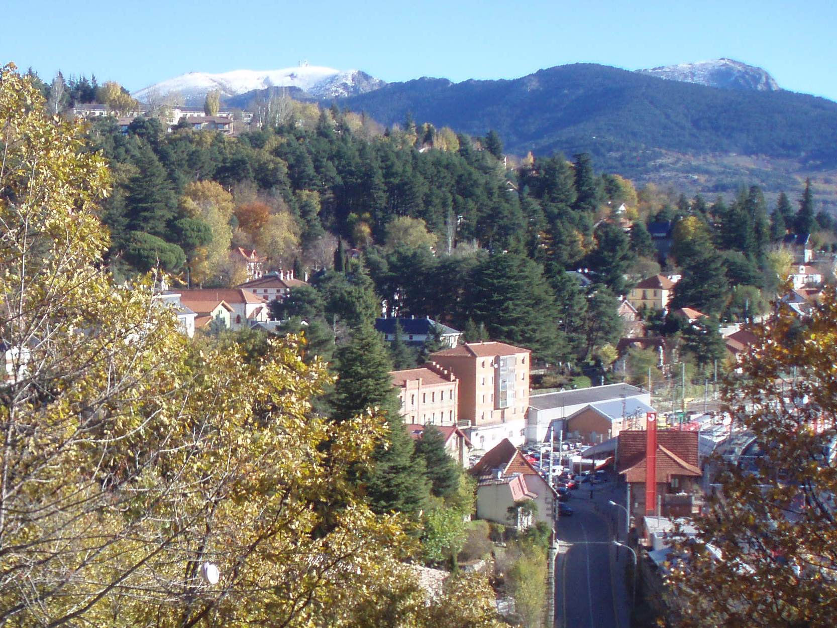 Cercedilla, a mountain town in the Community of Madrid (Central Spain).